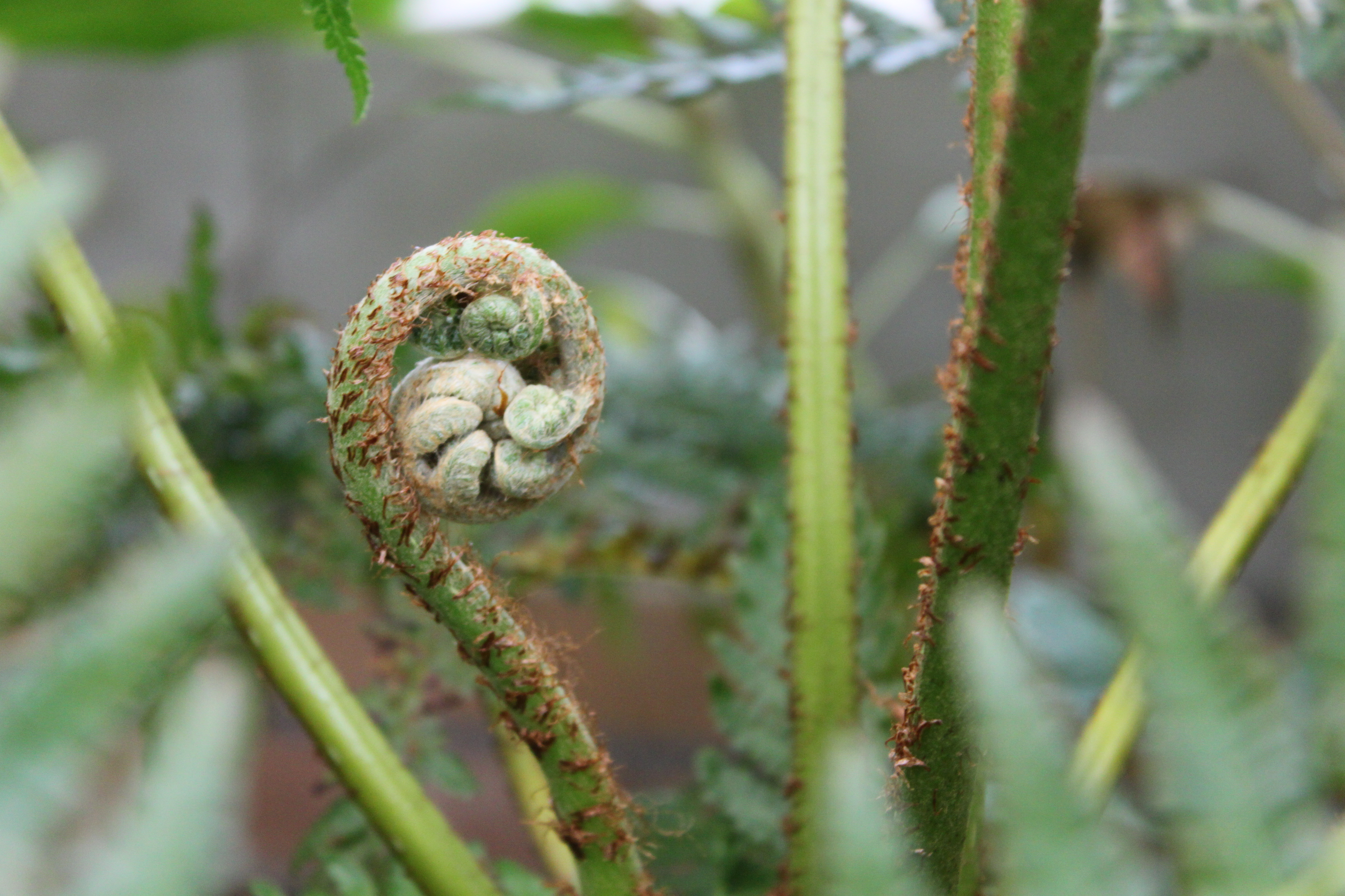 New growth of Cyathea capensis. Forest Tree Fern. Photo taken in Cape Town.